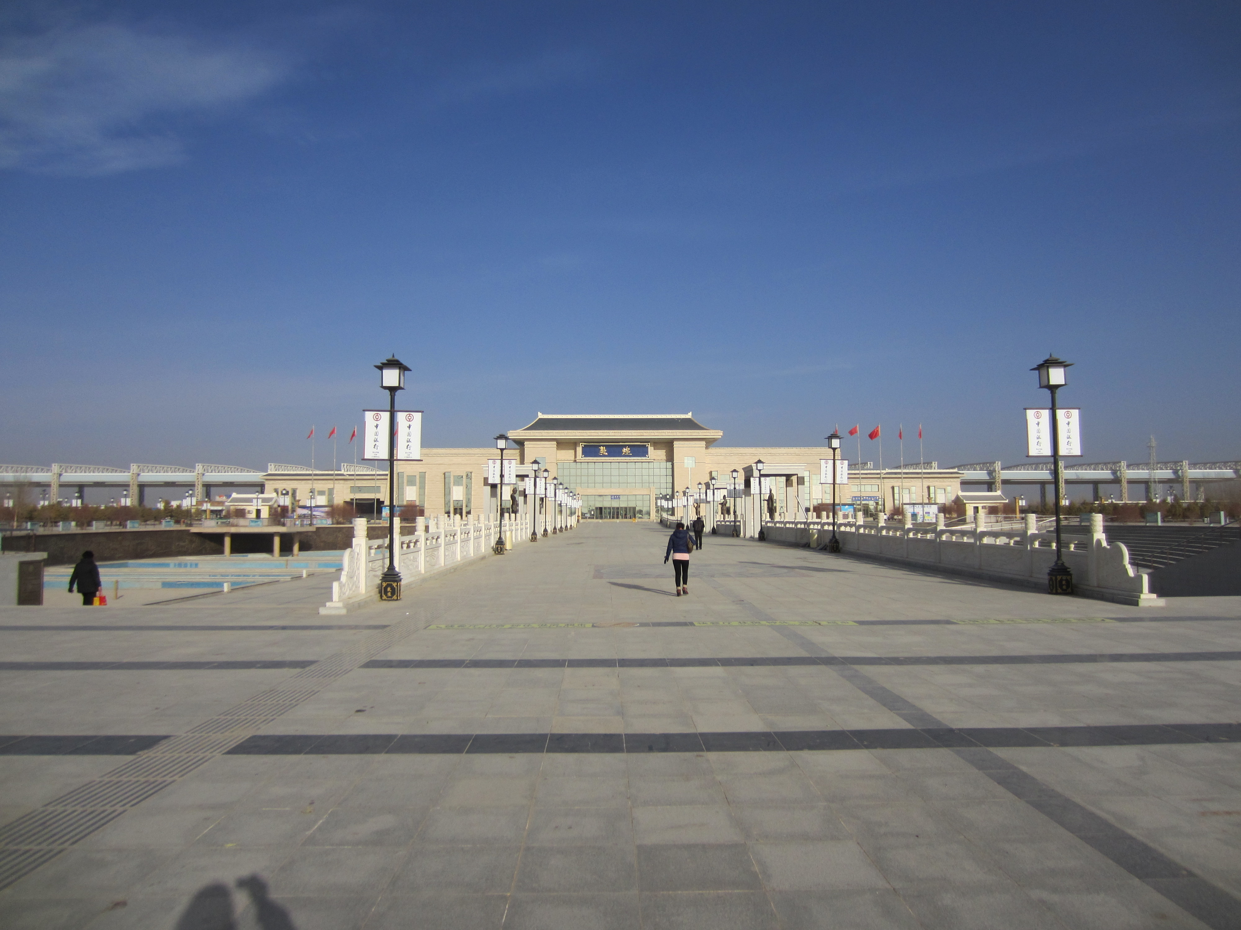 Railway statio in Dunhuang, China.